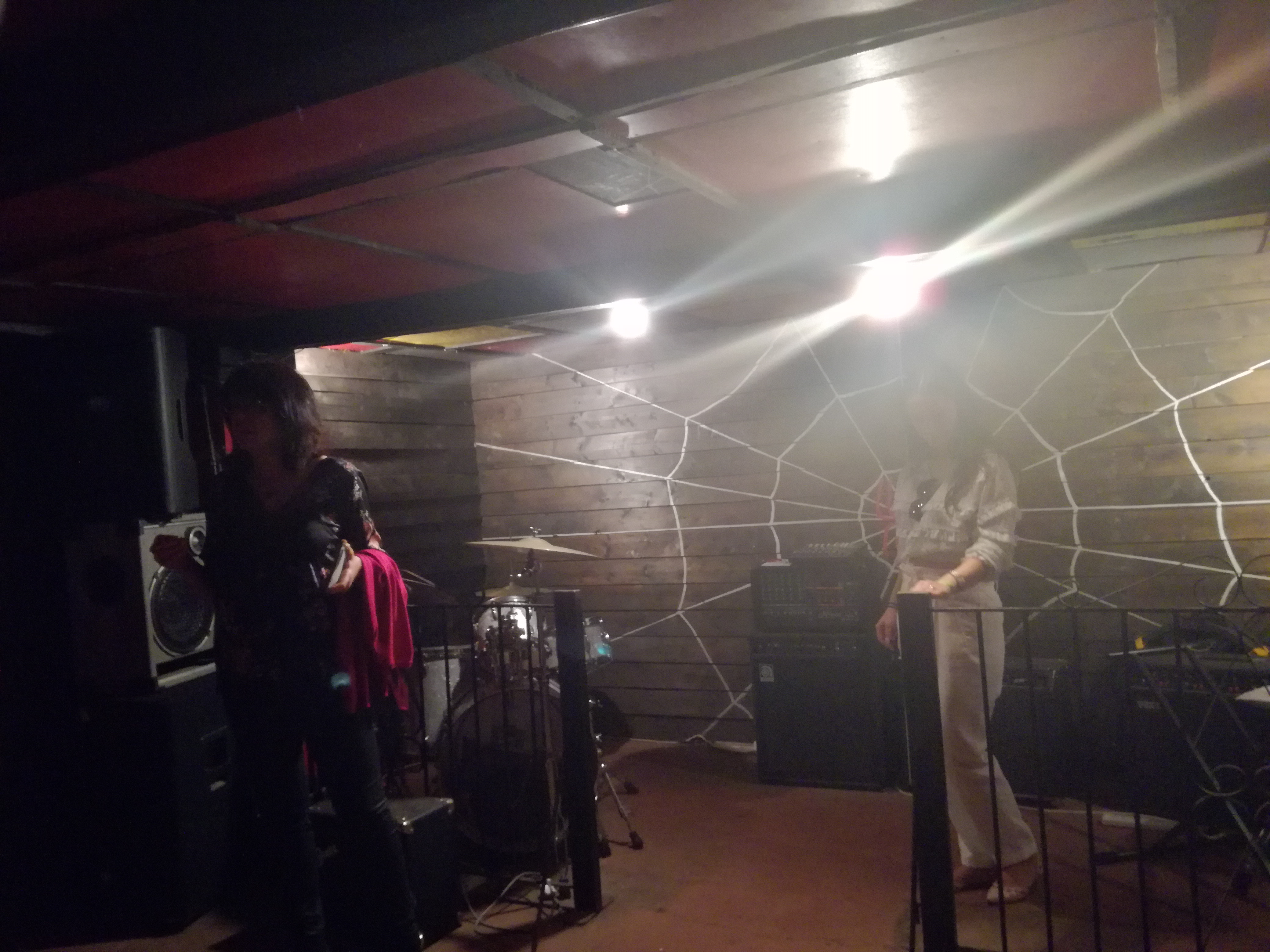 Casbah 1960 stage. The spider net was painted by John Lennon.